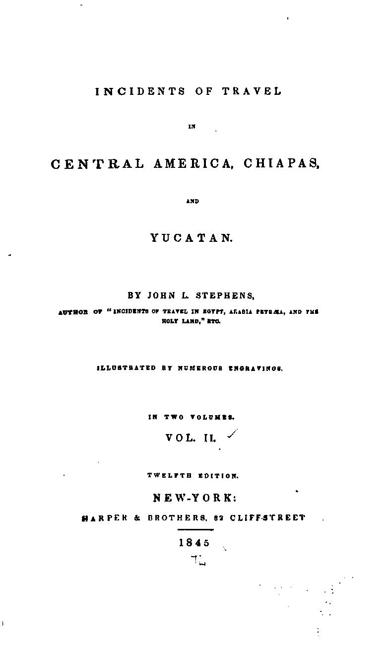 Incidents of travel in Central America, Chiapas, and Yucatan, 1845 edition.